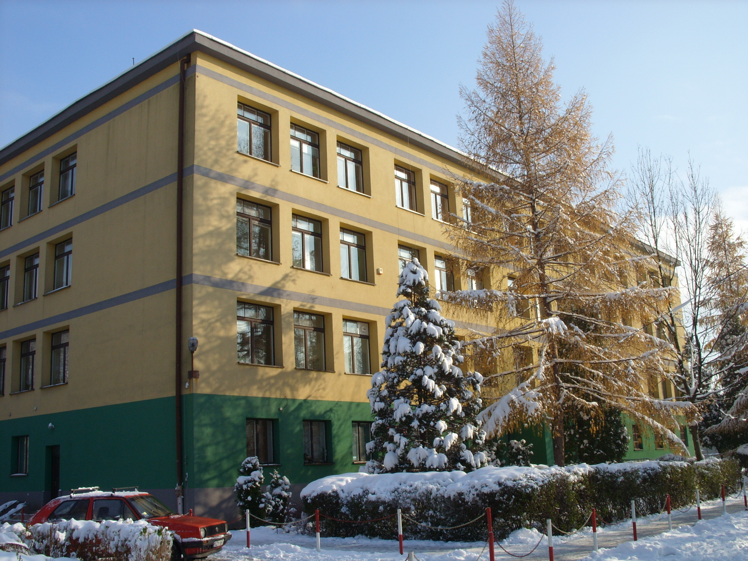 3rd Primary School in Żywiec (Poland)